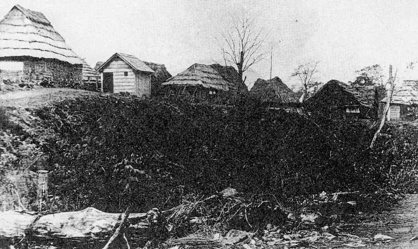 Development of Hokkaido by Banseisha